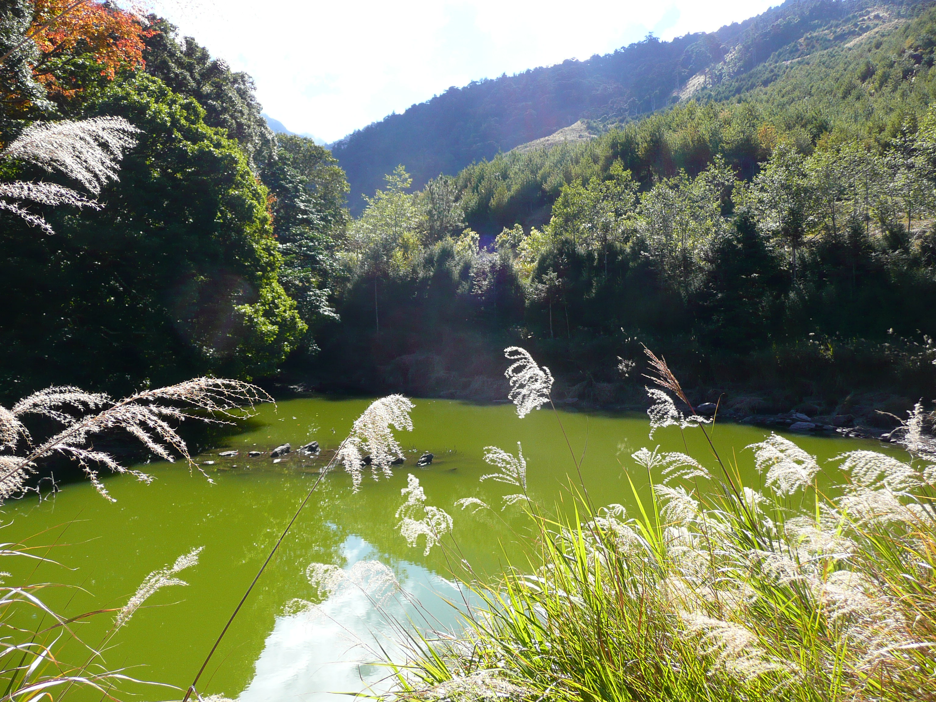 天池 Heavenly Pond